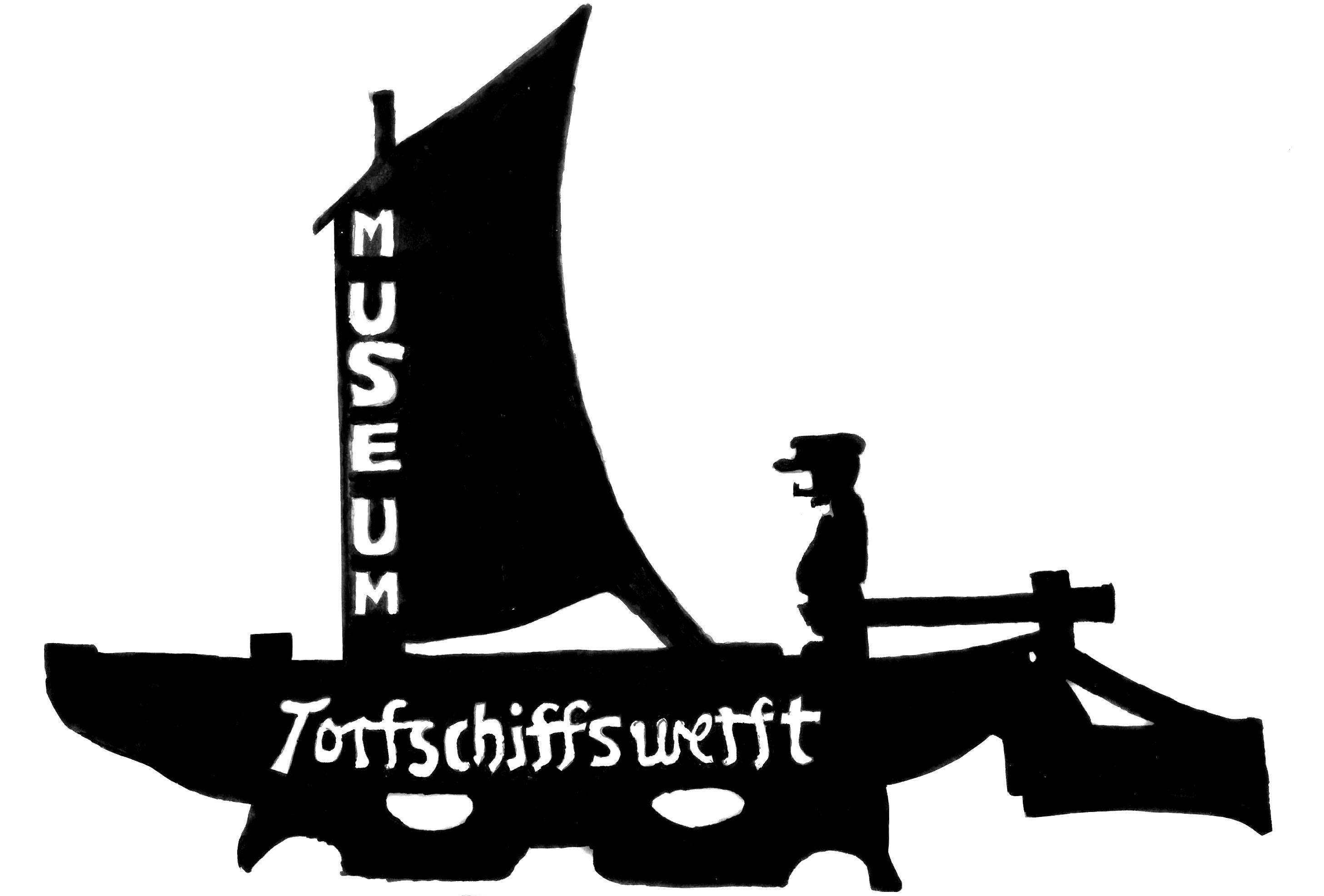 Torfschiffswerft Schlussdorf: The logo, designed by Johann Murken in 1978, depicting Jan vom Moor (John from the Mire, as turf skippers and turf sellers used to be characterised)